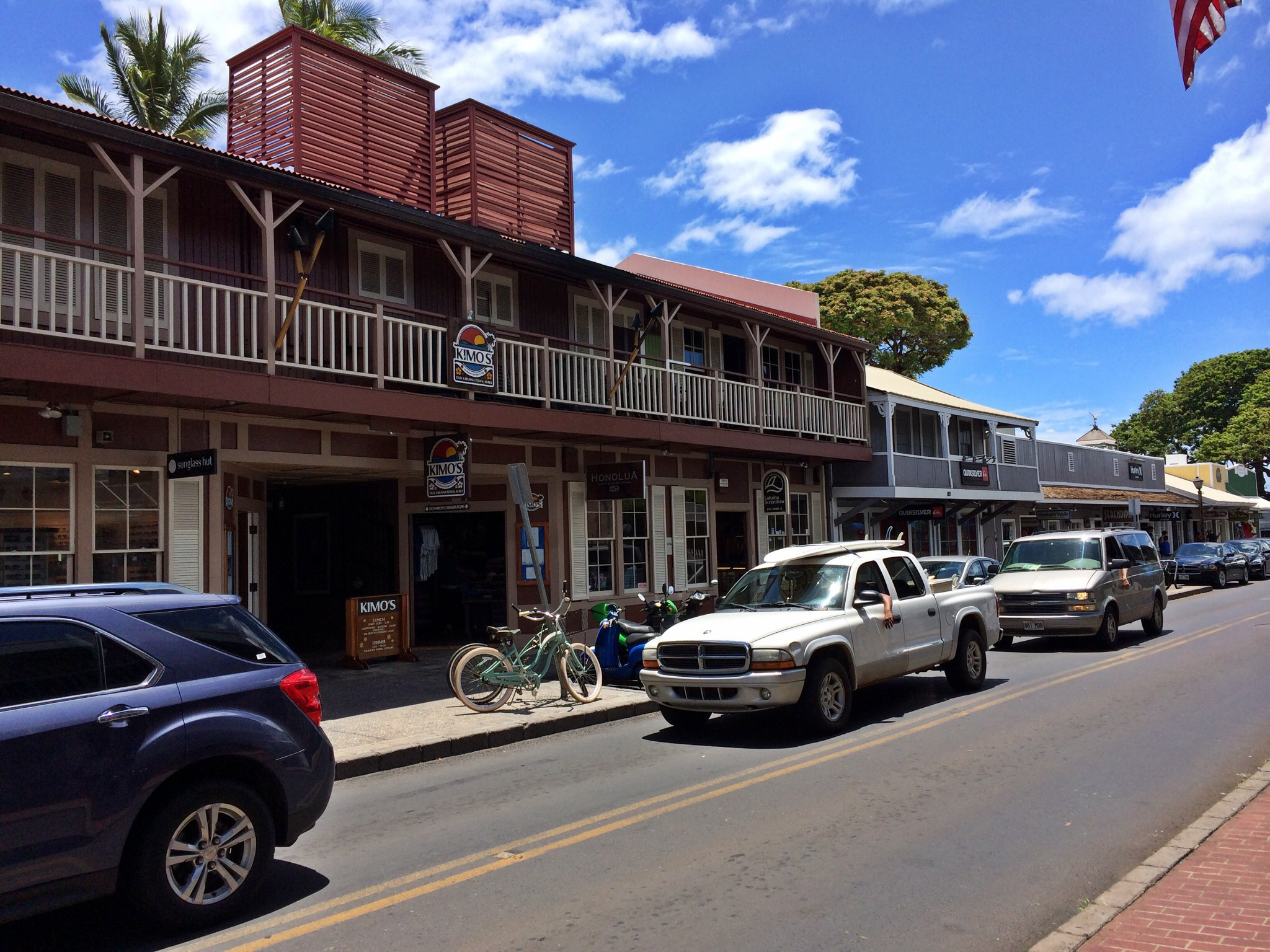 Shops and Restaurants along Front Street, Lahaina Town